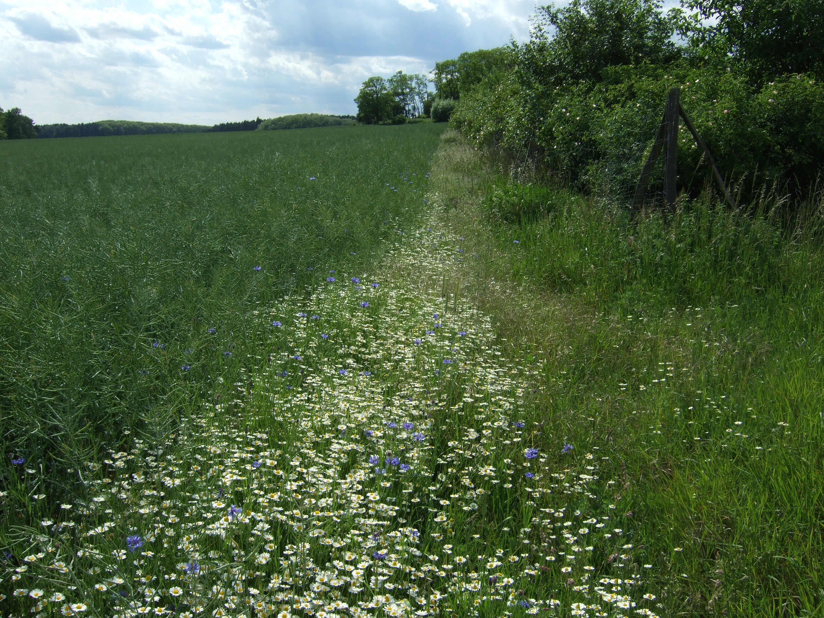 Blooming strip with chamomiles and corn flowers as field margin near Booßen, Frankfurt (Oder), Germany.